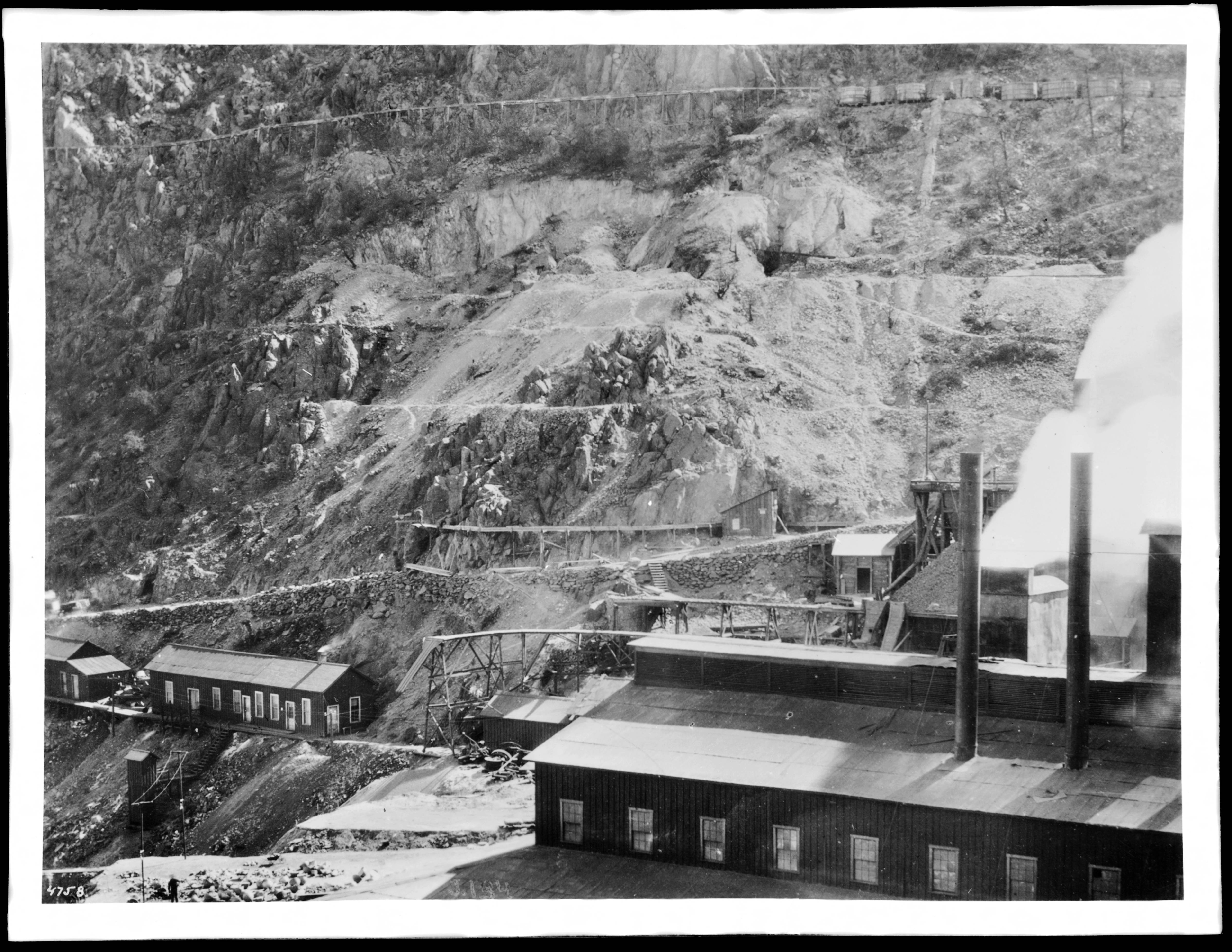 Copper mining town, Bisbee, Arizona, ca.1900 Photograph of a copper mining town, Bisbee (Jerome?), Arizona, ca.1900. Two smokestacks of a large processing shed are visible at right. Several smaller buildings are perched along a ledge of the steep slope of a mountainside at left. Smoke belches from stacks behind the large shed. Switchbacks are cut into the slope. At top, a long row of rail cars carry ore. Call number: CHS-4758 Photographer: James, George Wharton Filename: CHS-4758 Coverage date: circa 1900 Part of collection: California Historical Society Collection, 1860-1960 Type: images Geographic subject (city or populated place): Bisbee Repository name: USC Libraries Special Collections Accession number: 4758 Microfiche number: 1-114- Archival file: chs_Volume98/CHS-4758.tiff Part of subcollection: Title Insurance and Trust, and C.C. Pierce Photography Collection, 1860-1960 Repository address: Doheny Memorial Library, Los Angeles, CA 90089-0189 Geographic subject (country): USA Format (aacr2): 2 photographs : photonegative, photoprint, b&w ; 20 x 25 cm. Rights: Digitally reproduced by the USC Digital Library; From the California Historical Society Collection at the University of Southern California Subject (adlf): mine sites Project: USC Repository Identifying number: unidentified no: 1-111-39 Contributing entity: California Historical Society Date created: circa 1900 Publisher (of the digital version): University of Southern California. Libraries Format (aat): negatives (photographic); photographic prints; photographs Geographic subject (state): Arizona Subject (file heading): Mining -- Out of state Legacy record ID: chs-m17140; USC-1-1-1-14214 Access conditions: Send requests to address or e-mail given. Phone (213) 821-2366; fax (213) 740-2343. Geographic subject (county): Cochise Subject (lcsh): Mines and mineral resources